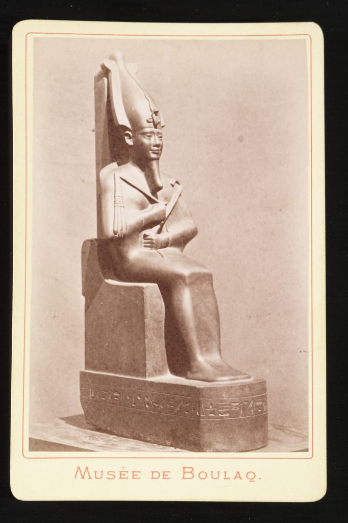 Seated statue of a man with a large headdress, arms cluching a cane